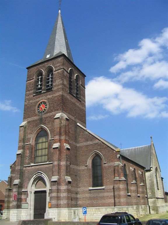 kerk van Teralfene